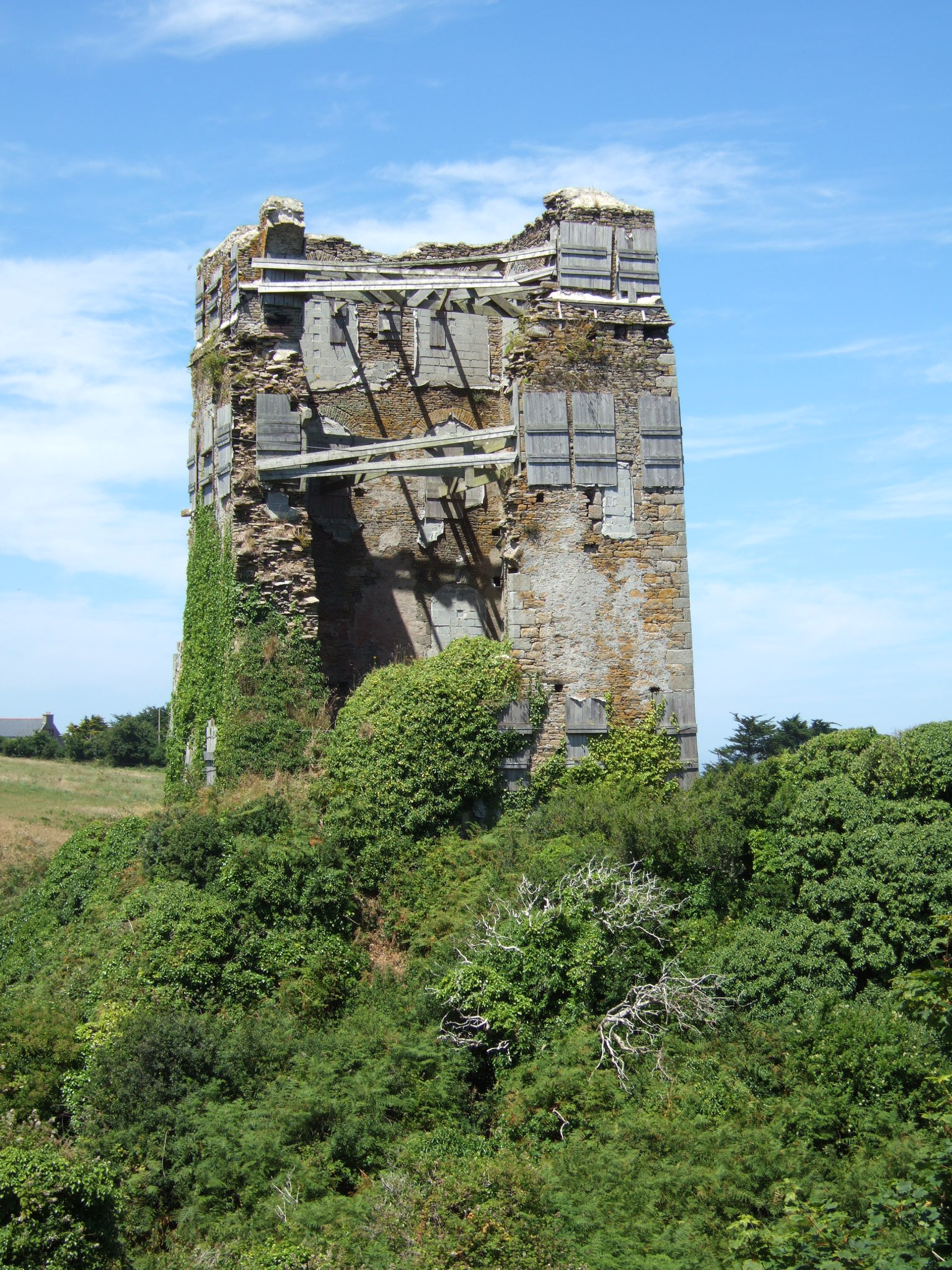 Ruins of the Château de Trémazan in Trémazan, France.